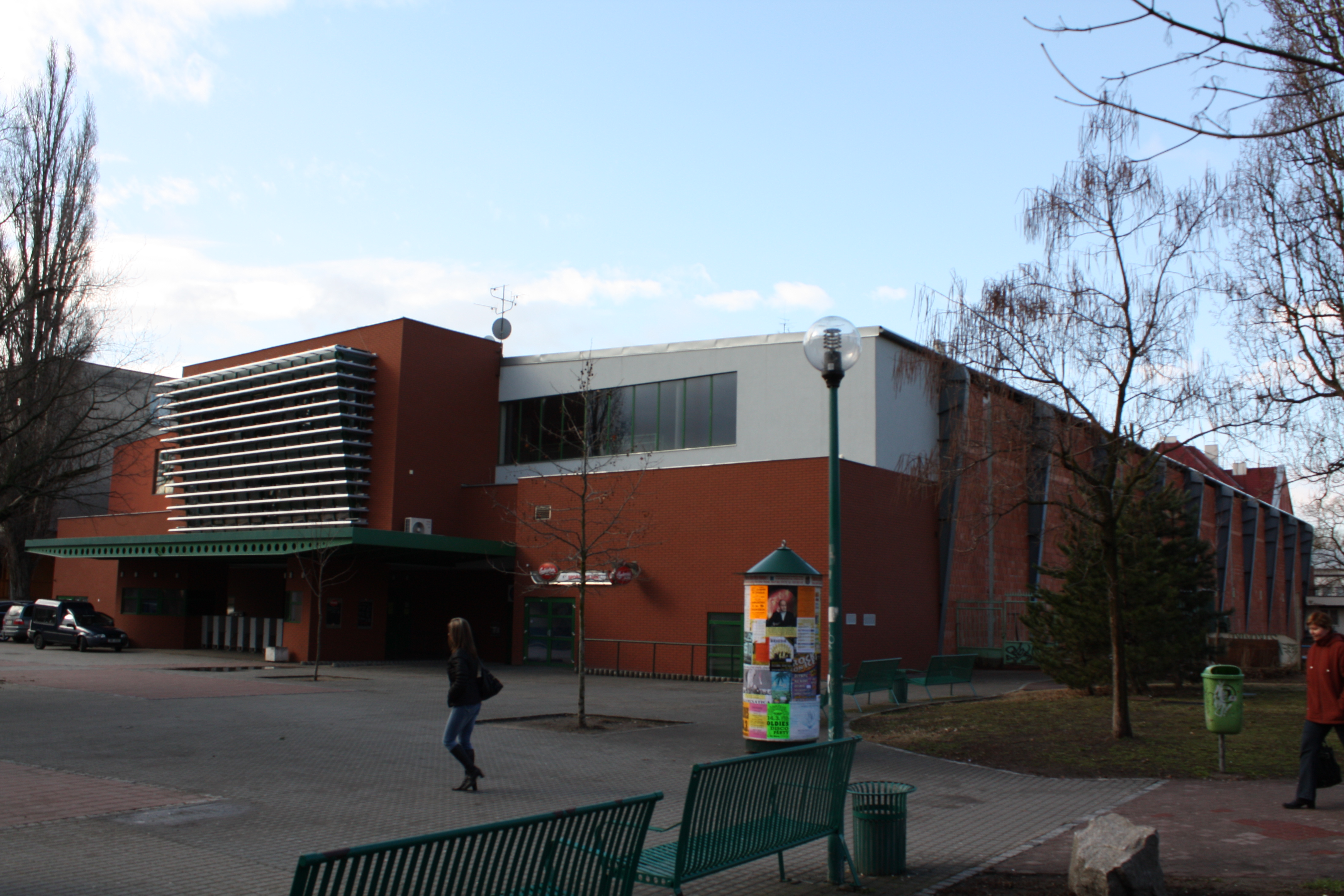 Hodonín - ice hockey stadium